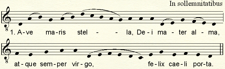 Own engraving from Solesmes "Liber hymnarius"